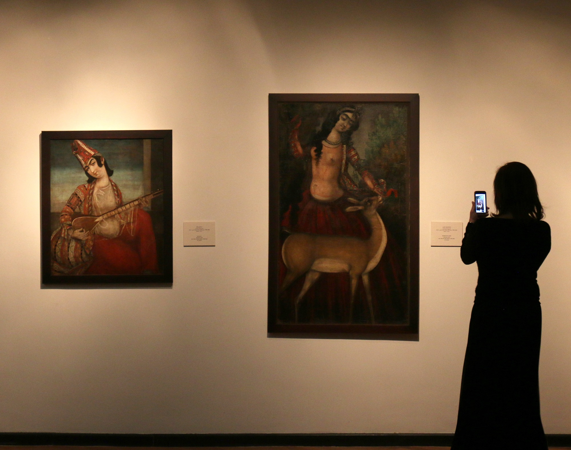 18th-/19th-century Royal Persian Paintings - Qajar era at Georgian Art Museum in Tbilisi -- Photo: Persian Dutch Network